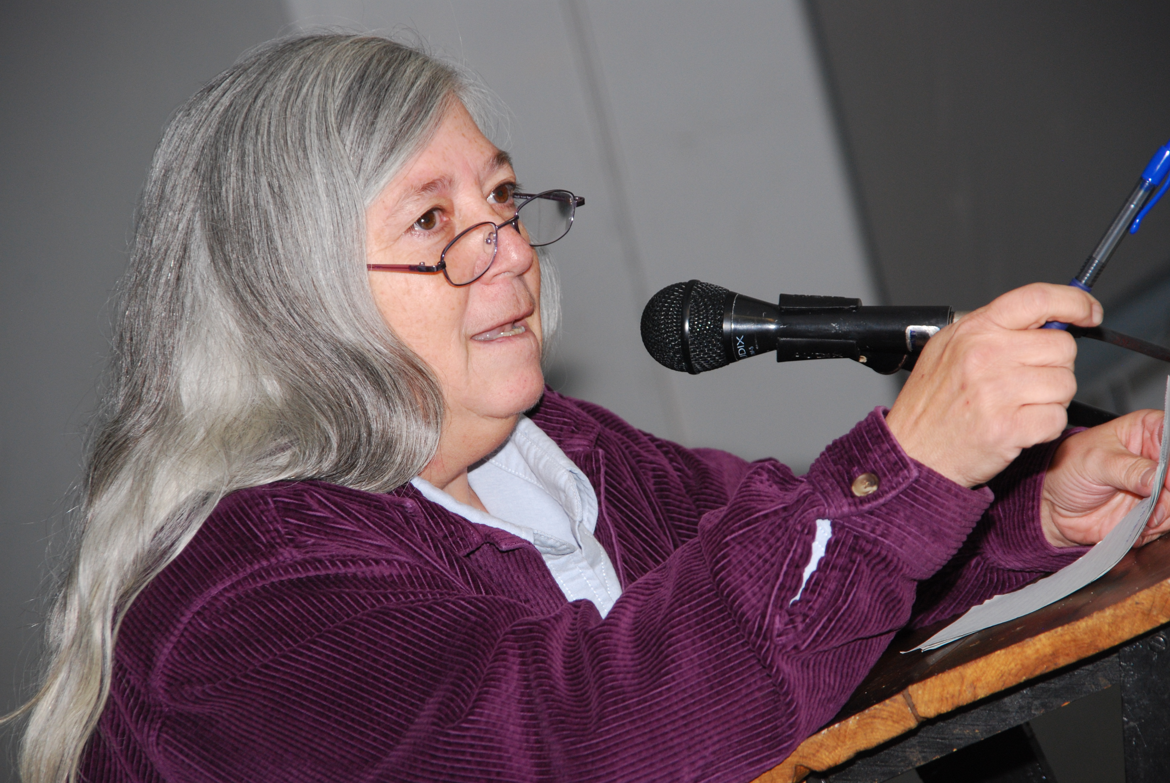 Anti-war activist Leslie Cagan speaking at David McReynold's 80th birthday party.